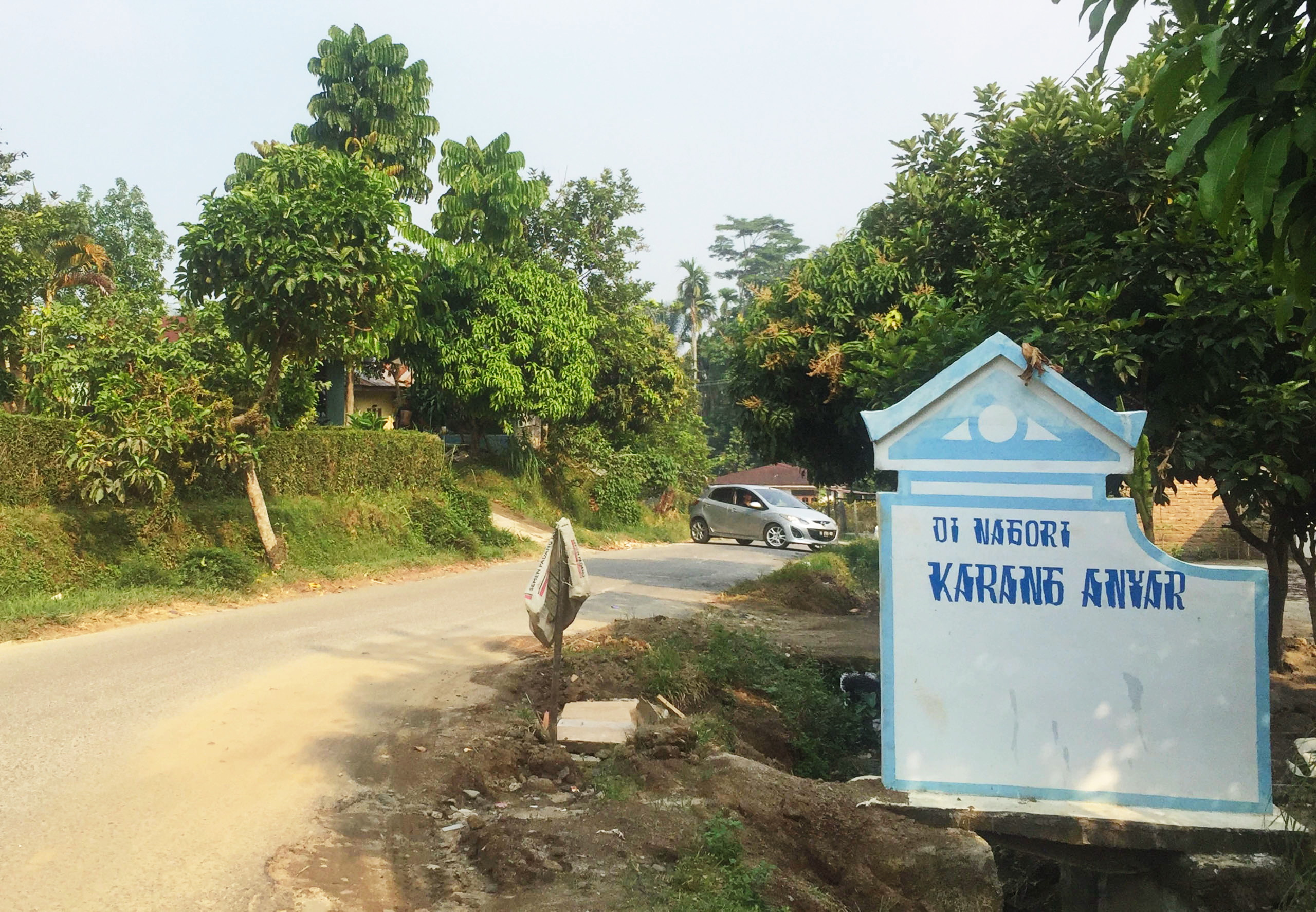 welcome gate to Karang Anyar, Gunung Maligas, Simalungun